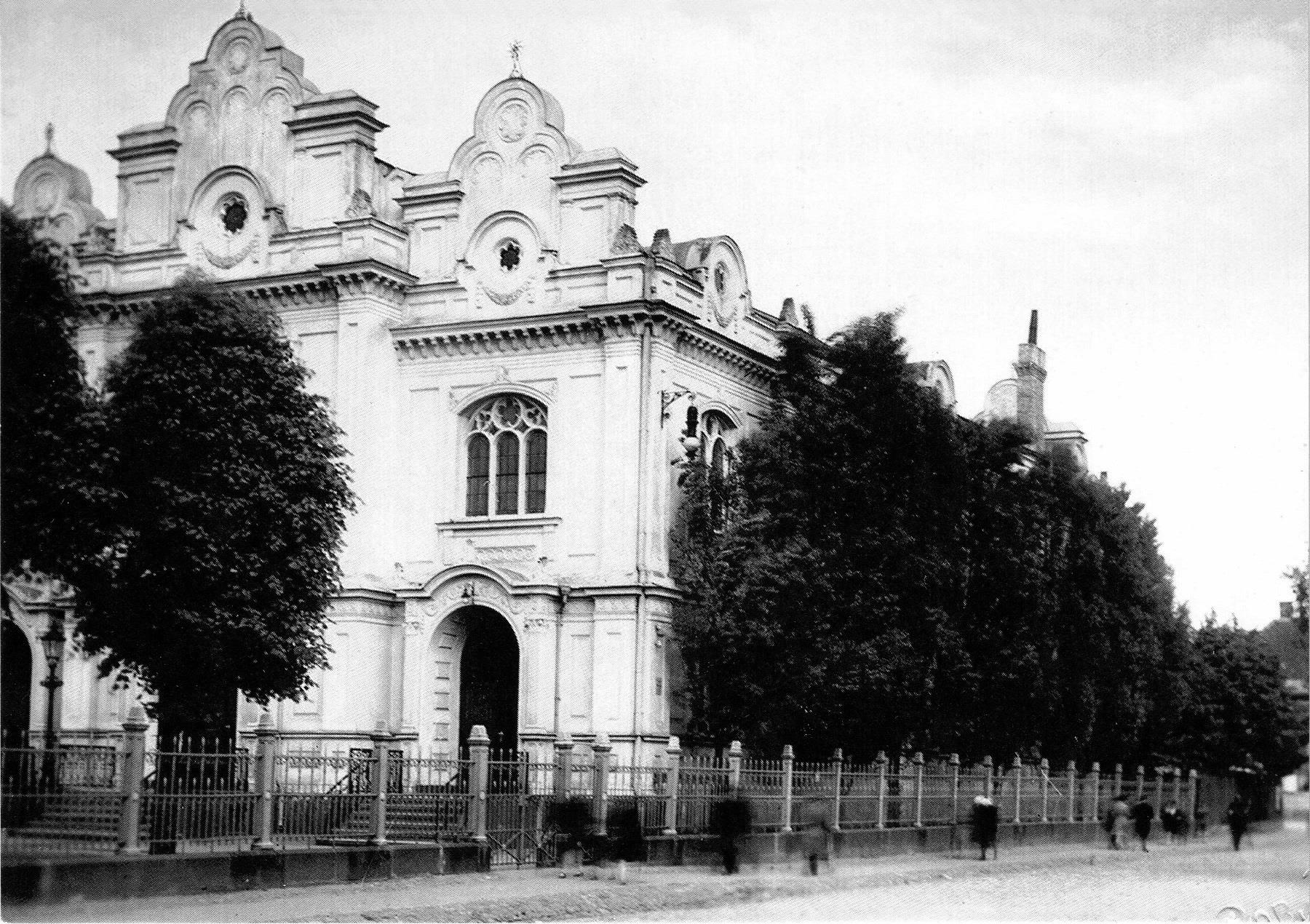 Great Choral Synagogue.Riga, Latvia. 1971-1941.